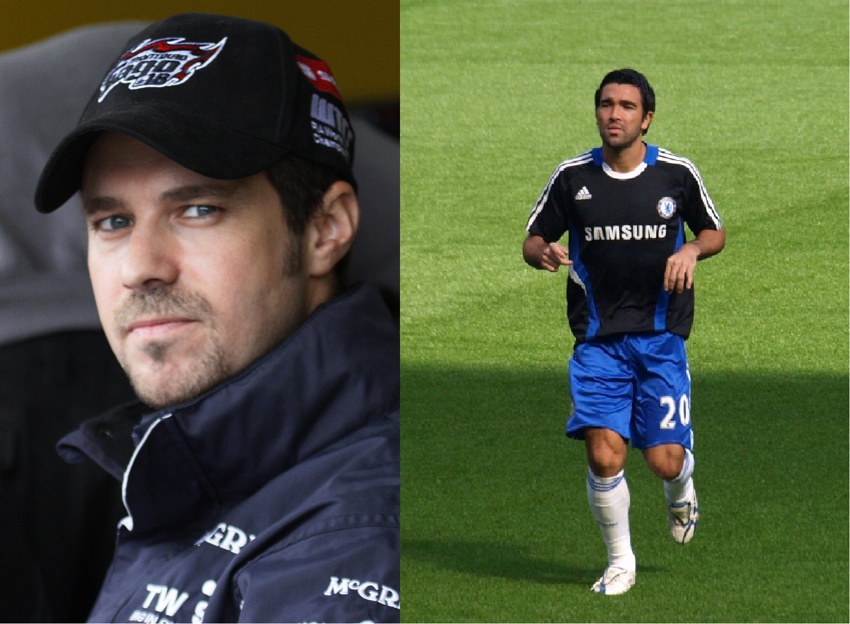 Tiago Monteiro (left) and Deco (right)